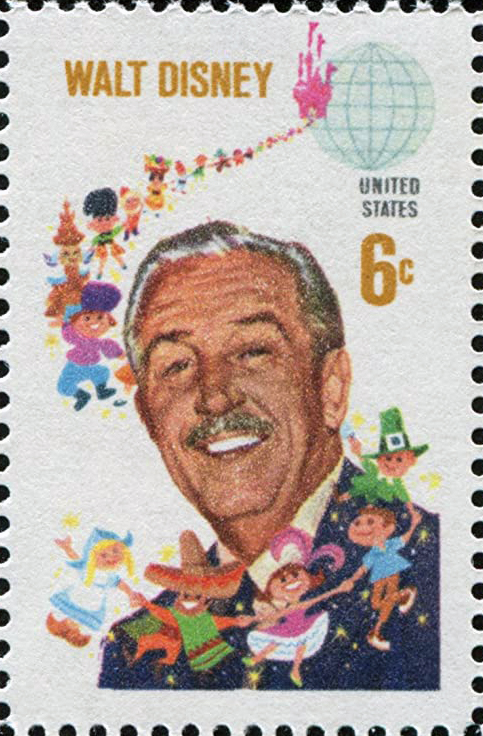 US postage stamp of 1968 depicting Walt Disney